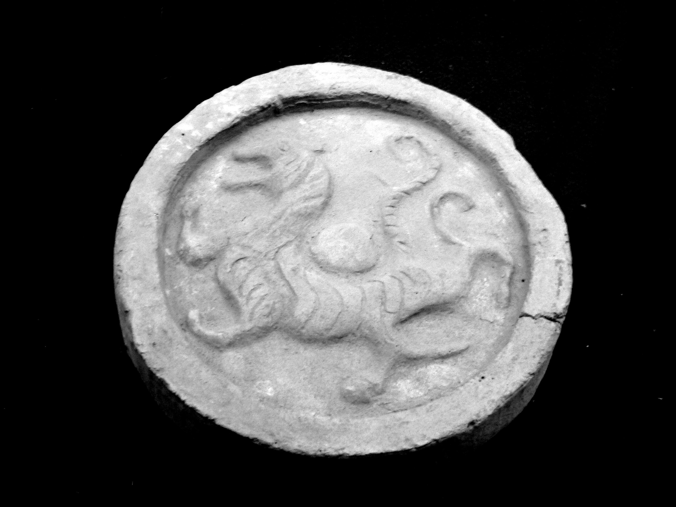 White Tiger (Chinese constellation) sculpture on the eaves tile